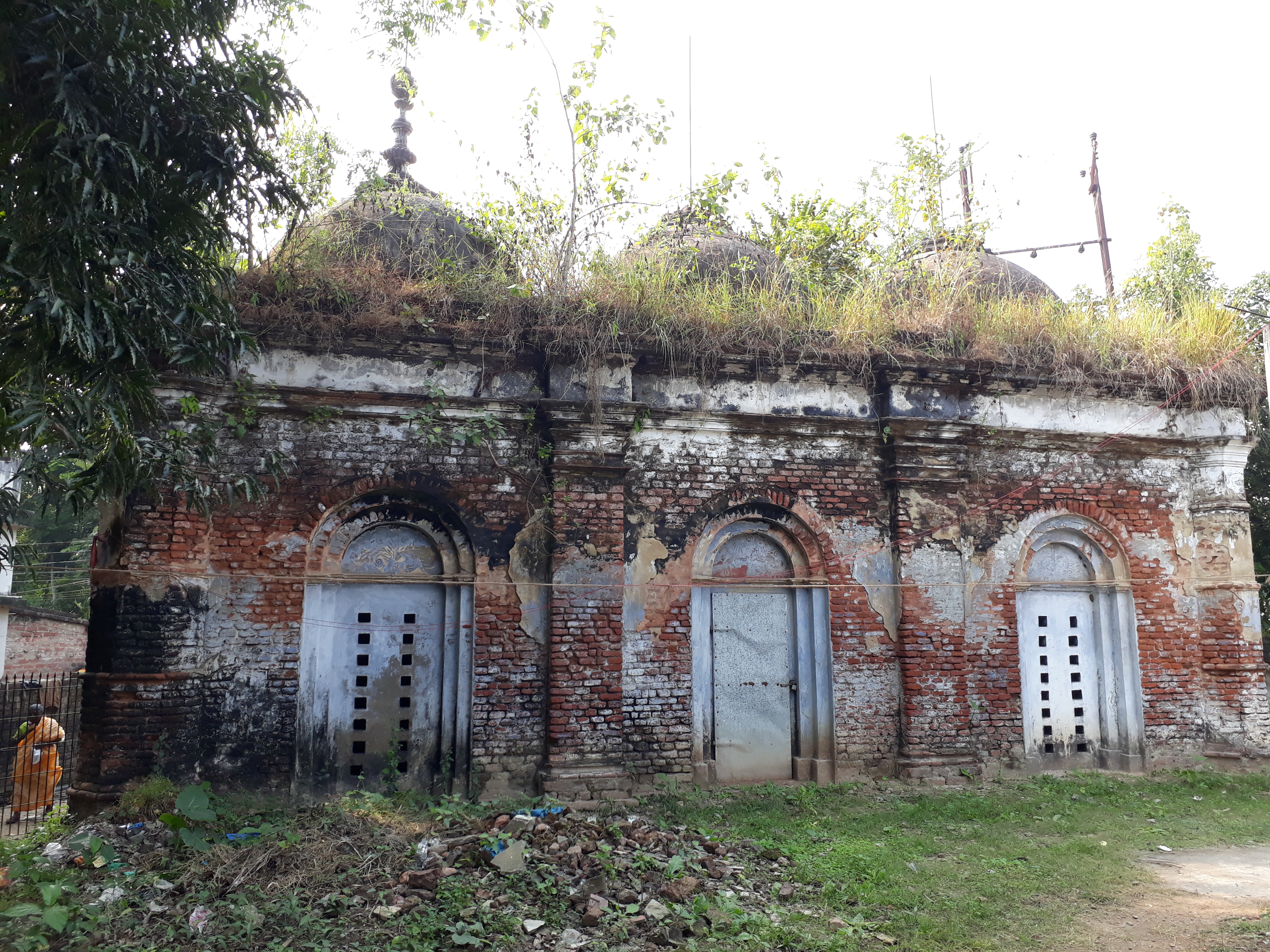 mosque of Ehteshamuddin, Chakdah